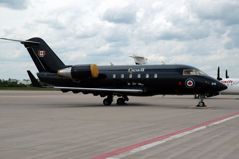 Bombardier Challenger CL601 in Canadian Forces livery; used for short range transport of the Prime Minister and Governor General. Plane number 144616.